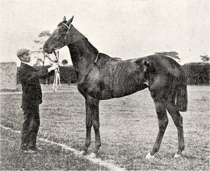 1900 1,000 Guineas Stakes winner, Winifreda.